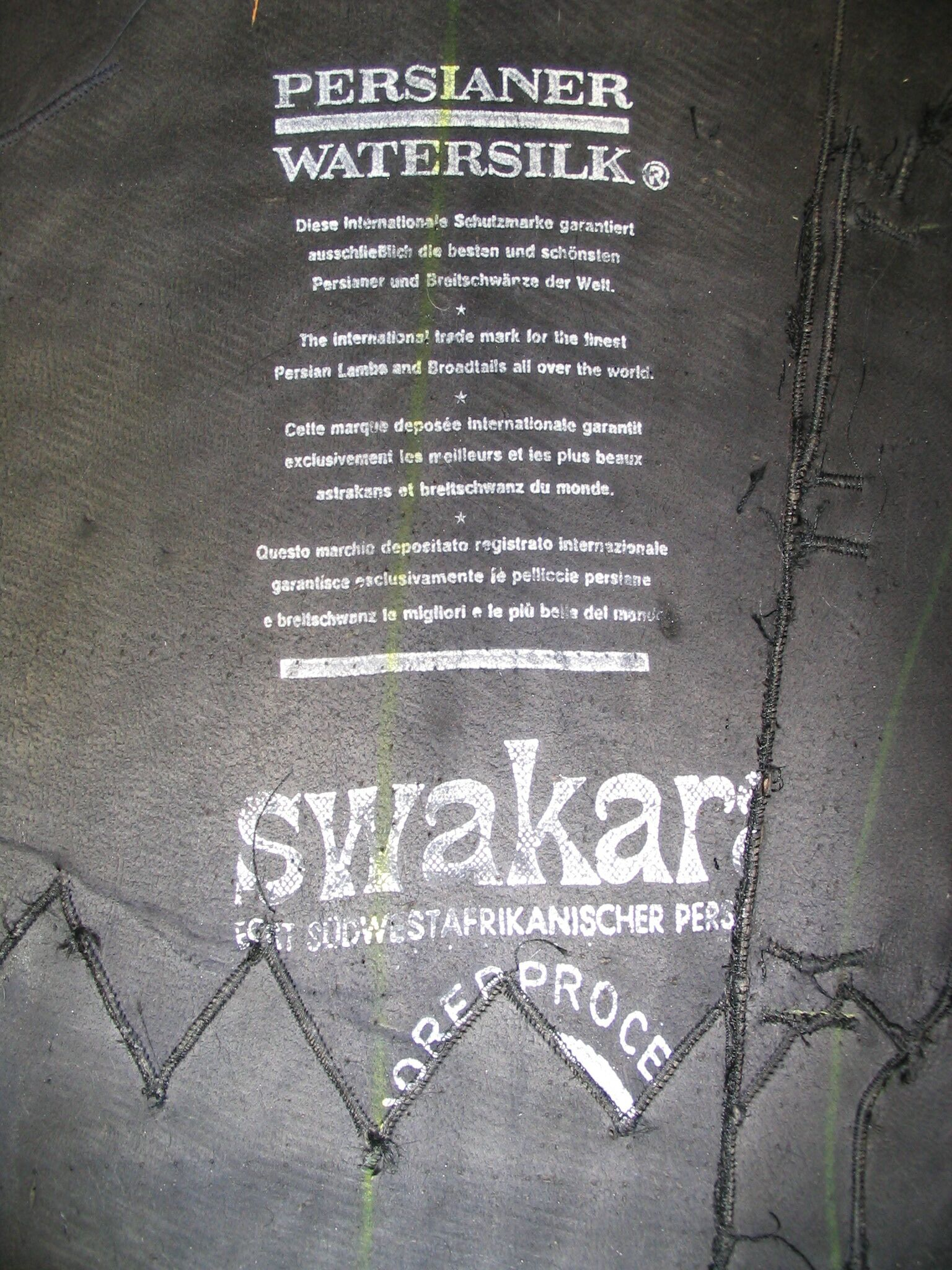 Persian lamb fur skin, leather side. Manufactured c. 1980?